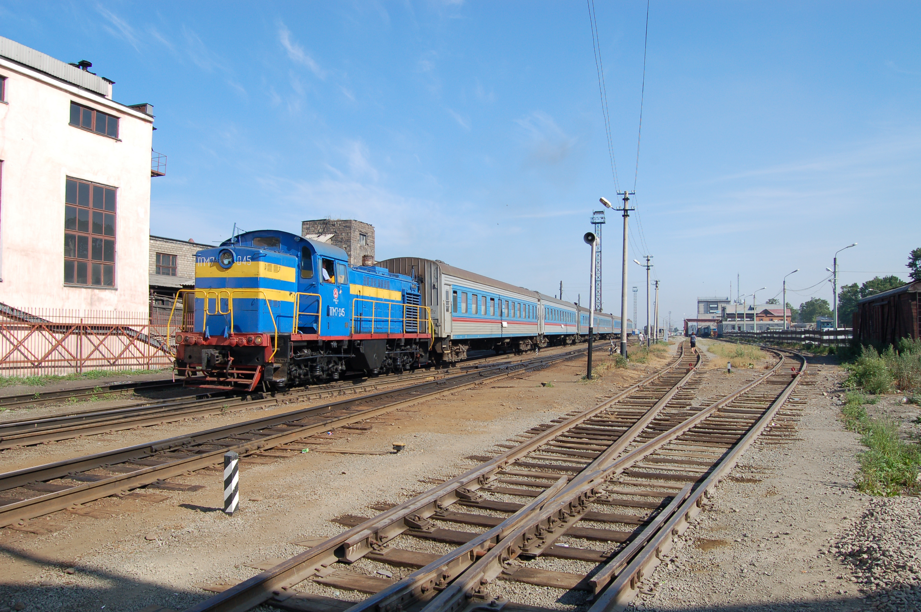 TGM7-045 diesel locomotive, Sakhalin.